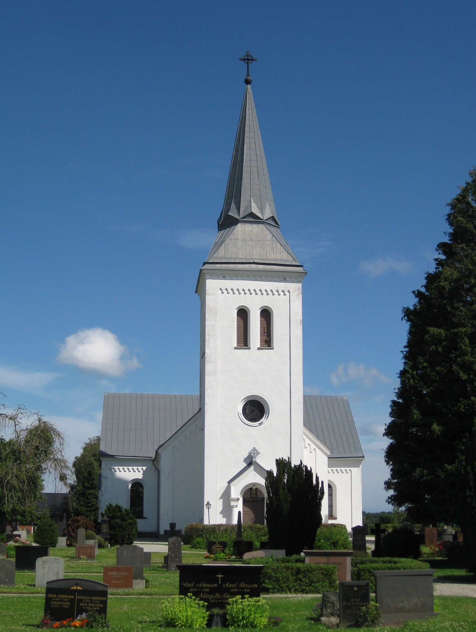 Södra Mellby church i Scania, Sweden